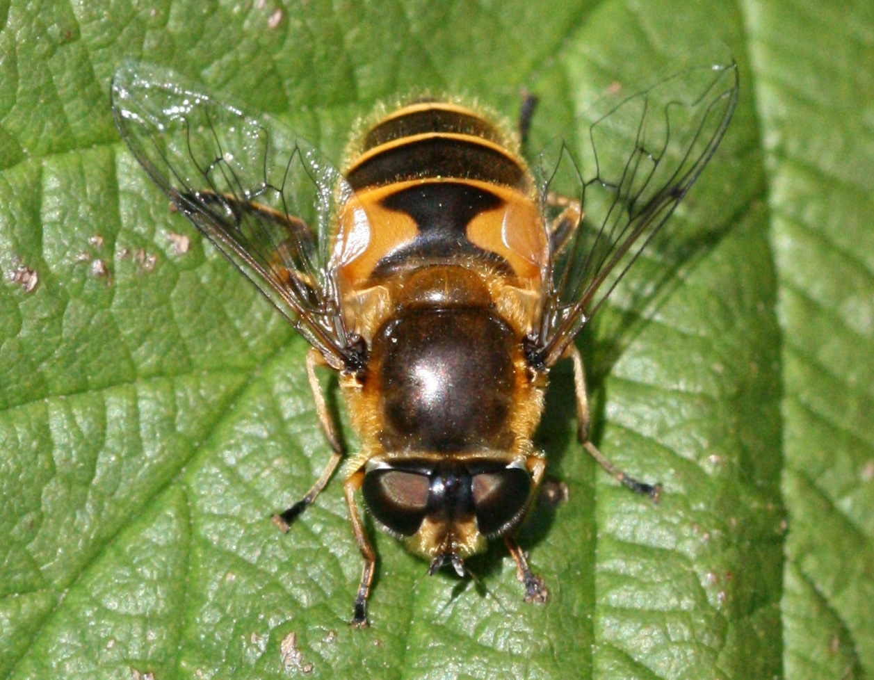 a female Eristalis horticola at Humbie, East Lothian, Scotland